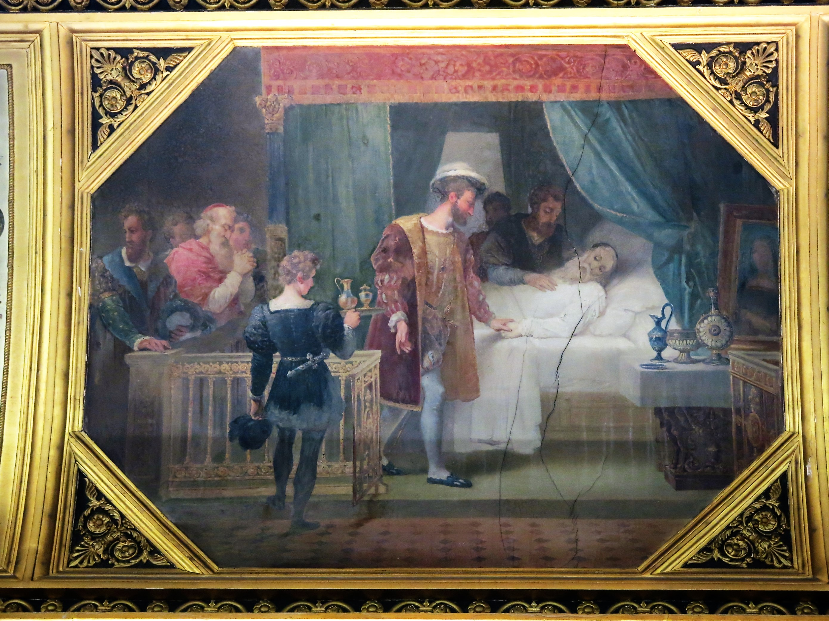 Leonardo da Vinci dying in the arms of the king of France Francis I of France (1519).